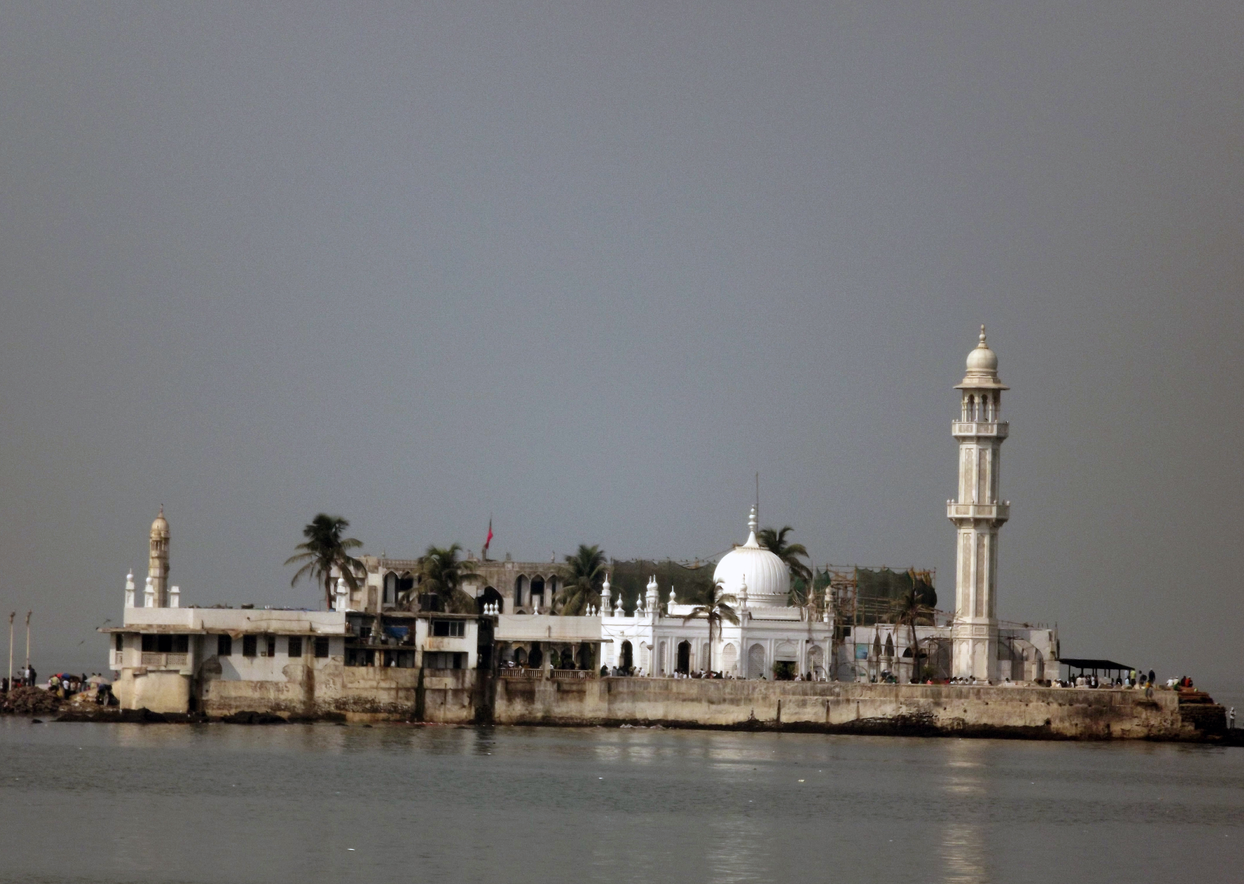 An exquisite example of Indian Islamic architecture, associated with legends about doomed lovers, the dargah contains the tomb of Sayed Peer Haji Ali Shah Bukhari.